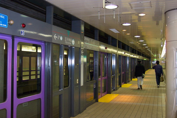 Subway cars of the station Oji-Kamiya (Line N [Nanboku Line]) The doors between cars and platforms open only when trains stop.